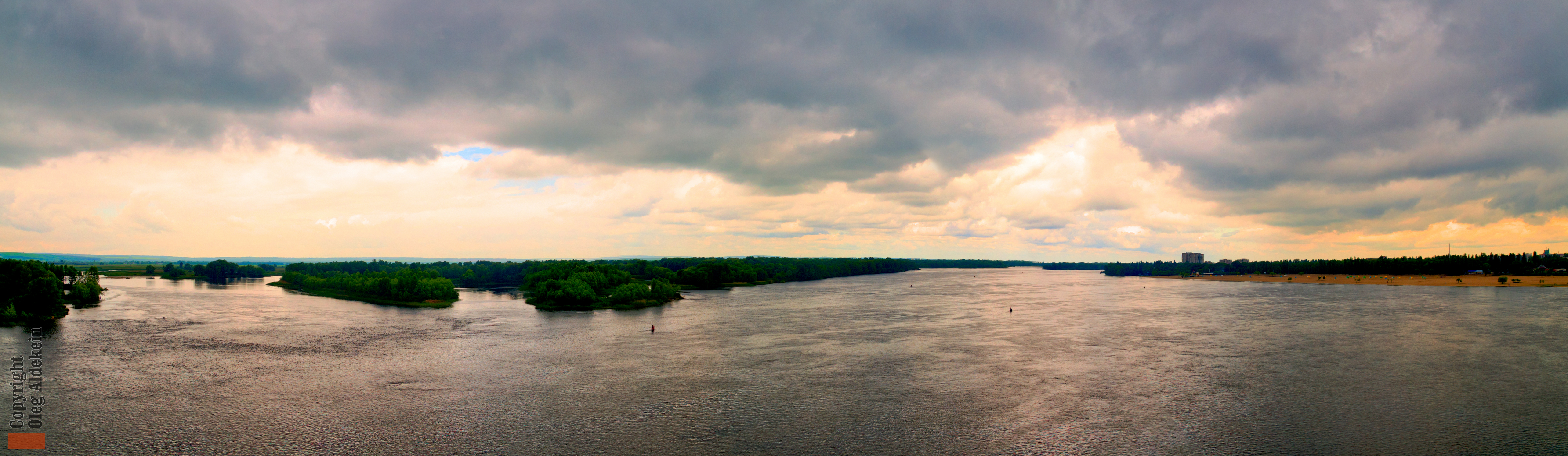 View on Dnieper River from Kryukivs'kyi bridge in Kremenchuk, Ukraine Canon 30D + Tamron 17-50 + Photomatix + Lightroom + PTGui